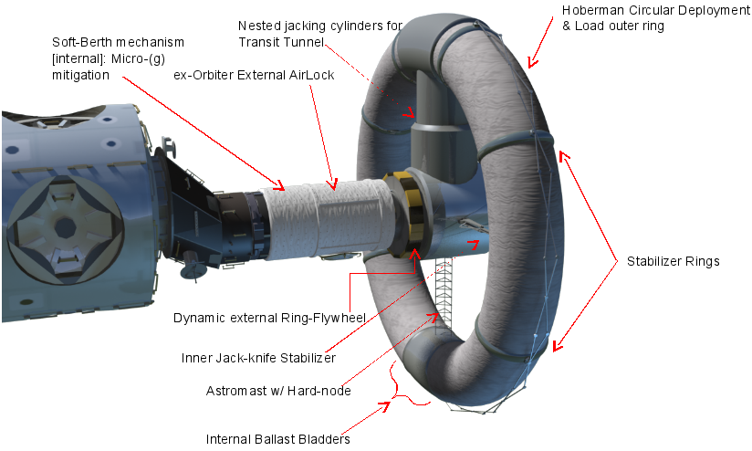 Annotated 3D view of the ISS centrifuge demo (cf. NASA's Nautilus-X spacecraft).